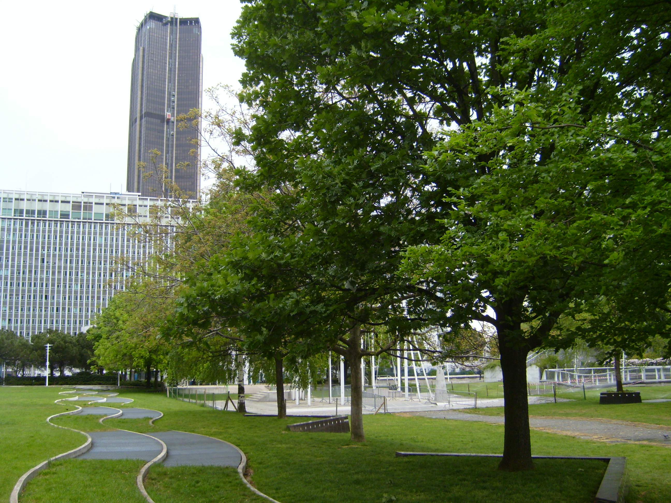 The Jardin Atlantique, above the platform of the Gare Montparnasse rainway station, Paris, 15th arondissement